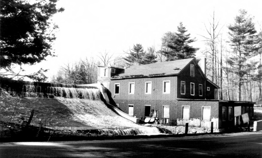 Doane's Sawmill/Deep River Manufacturing Company, Deep River and Westbrook, Connecticut. Buildings have been demolished.